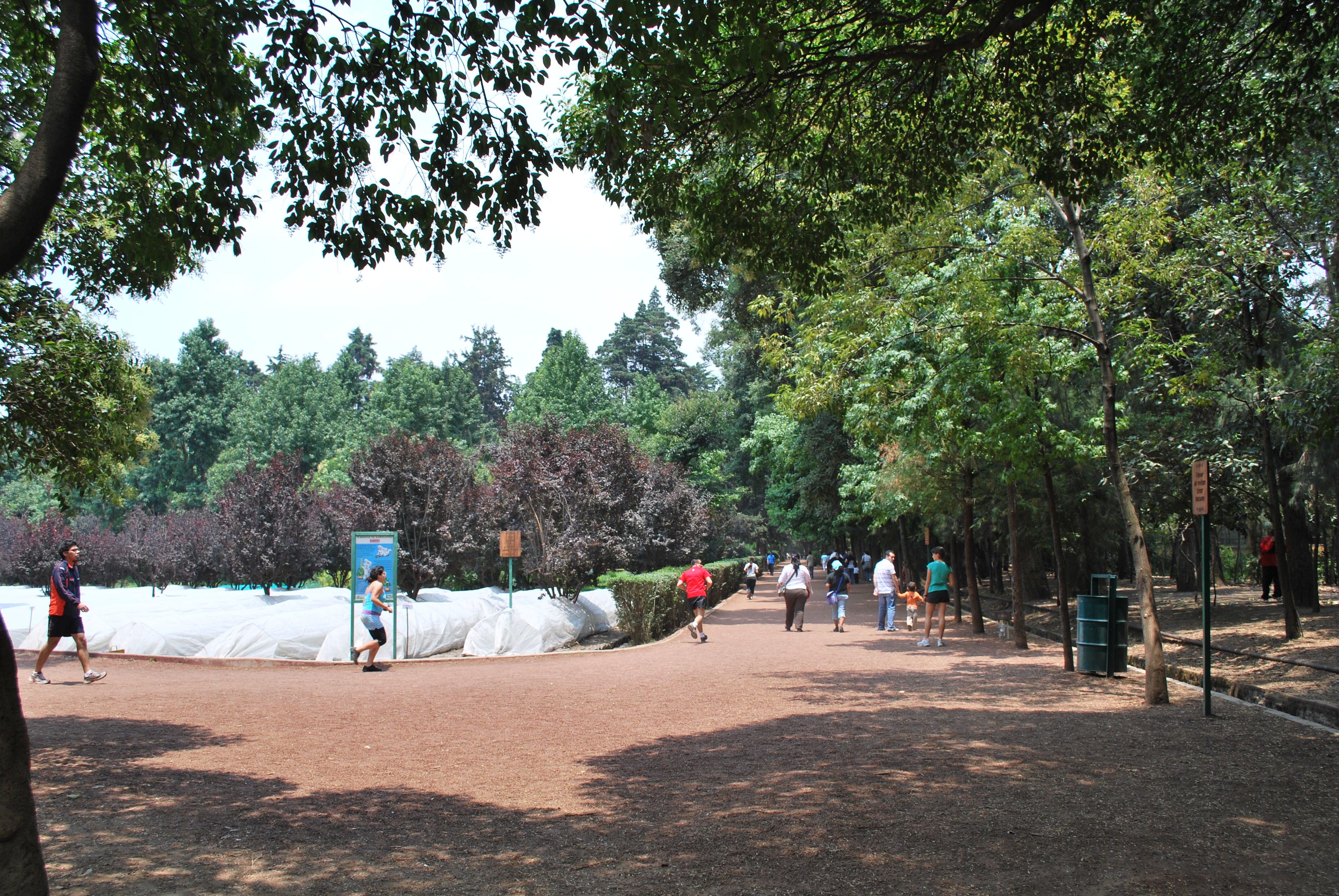 Part of the main path that circles the Viveros de Coyoacan park and plant nursery in Coyoacan borough in Mexico City